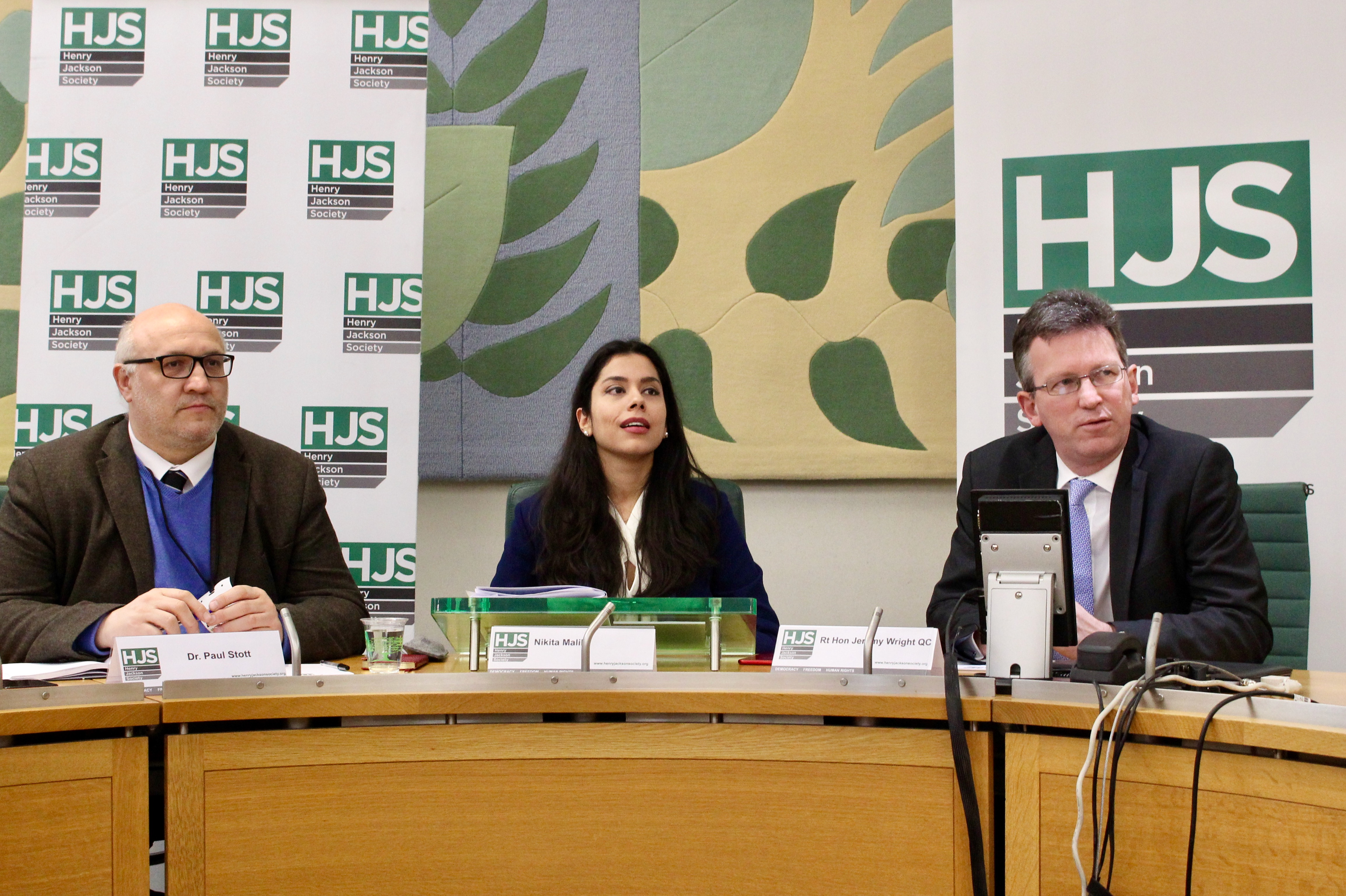 Rt Hon Jeremy Wright QC MP, a British Conservative, speaking at a Henry Jackson Society on the threat of Islamist and Far-Right extremism in online forums.